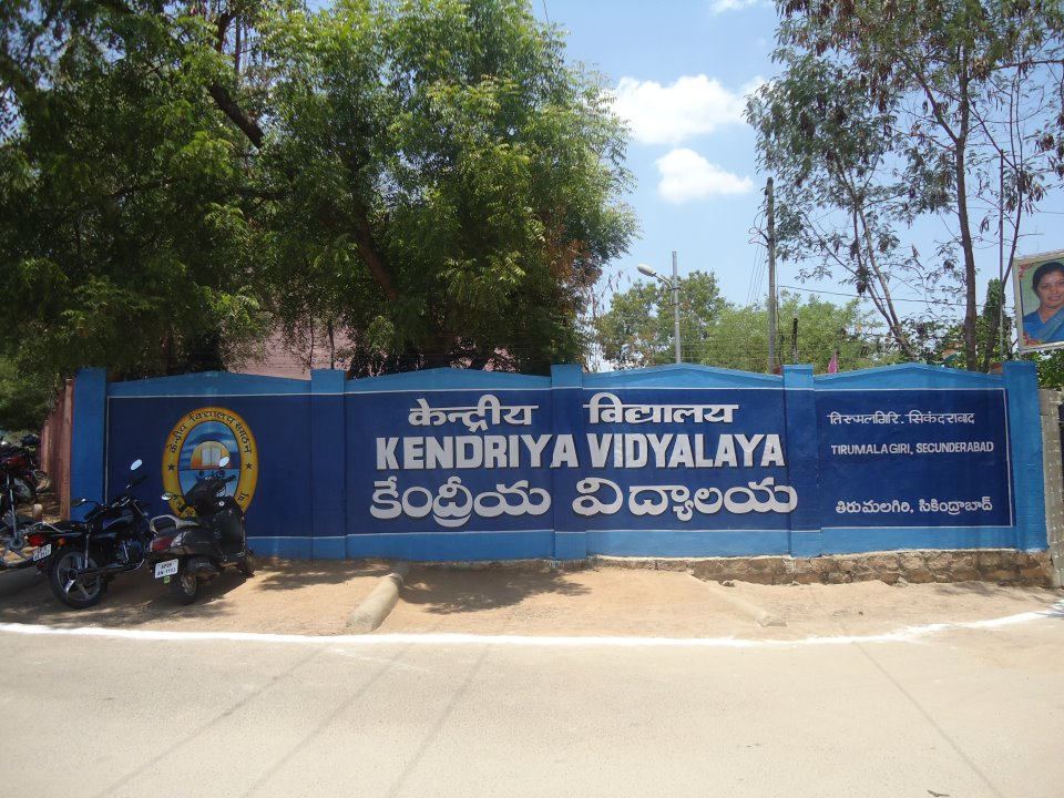 KVT Hoarding Board